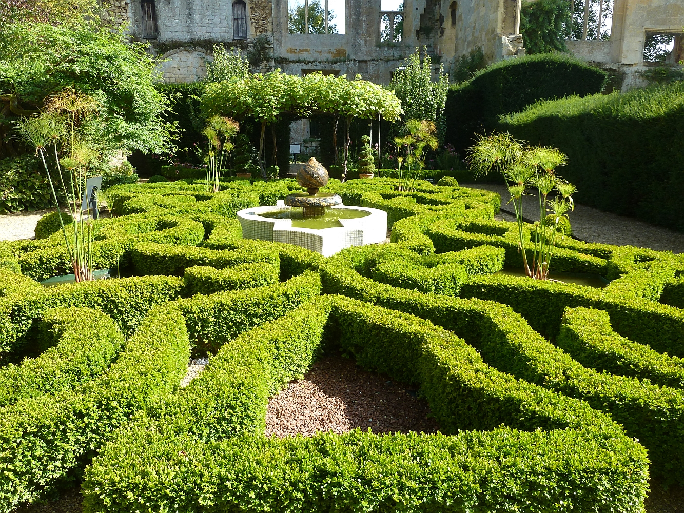 Sudeley Castle - Knot Garden - looking east. A view of the Knot Garden within a quadrangular internal courtyard of Sudeley Castle. This view is looking eastwards.